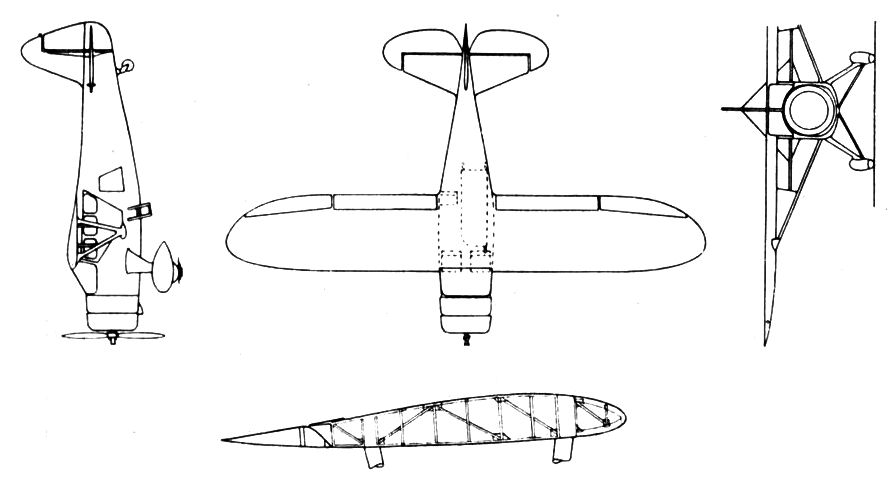 Howard DGA-15 3-view drawing from L'Aerophile July 1939